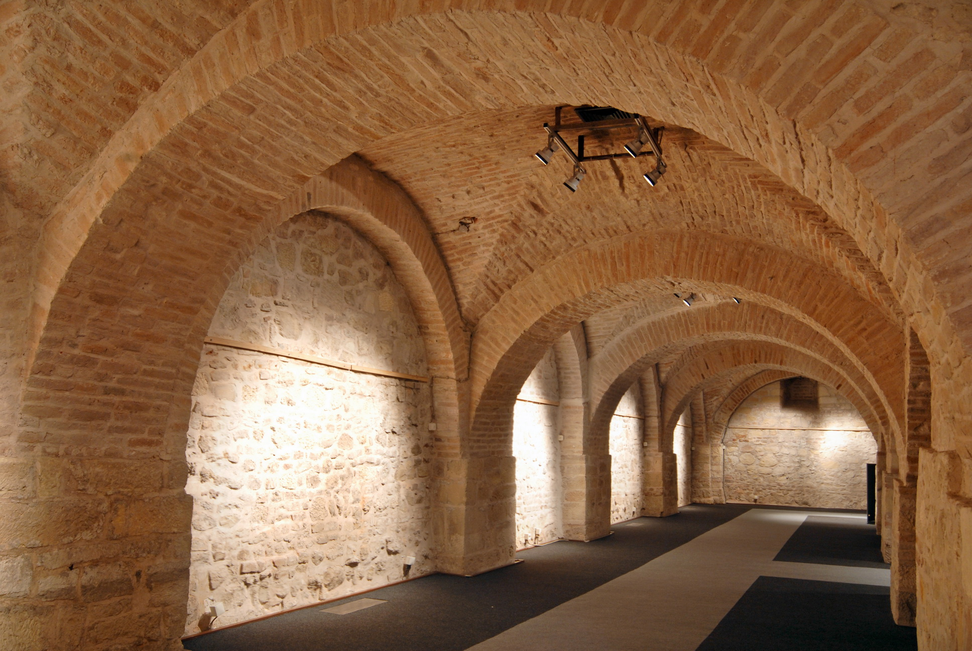 Део конака